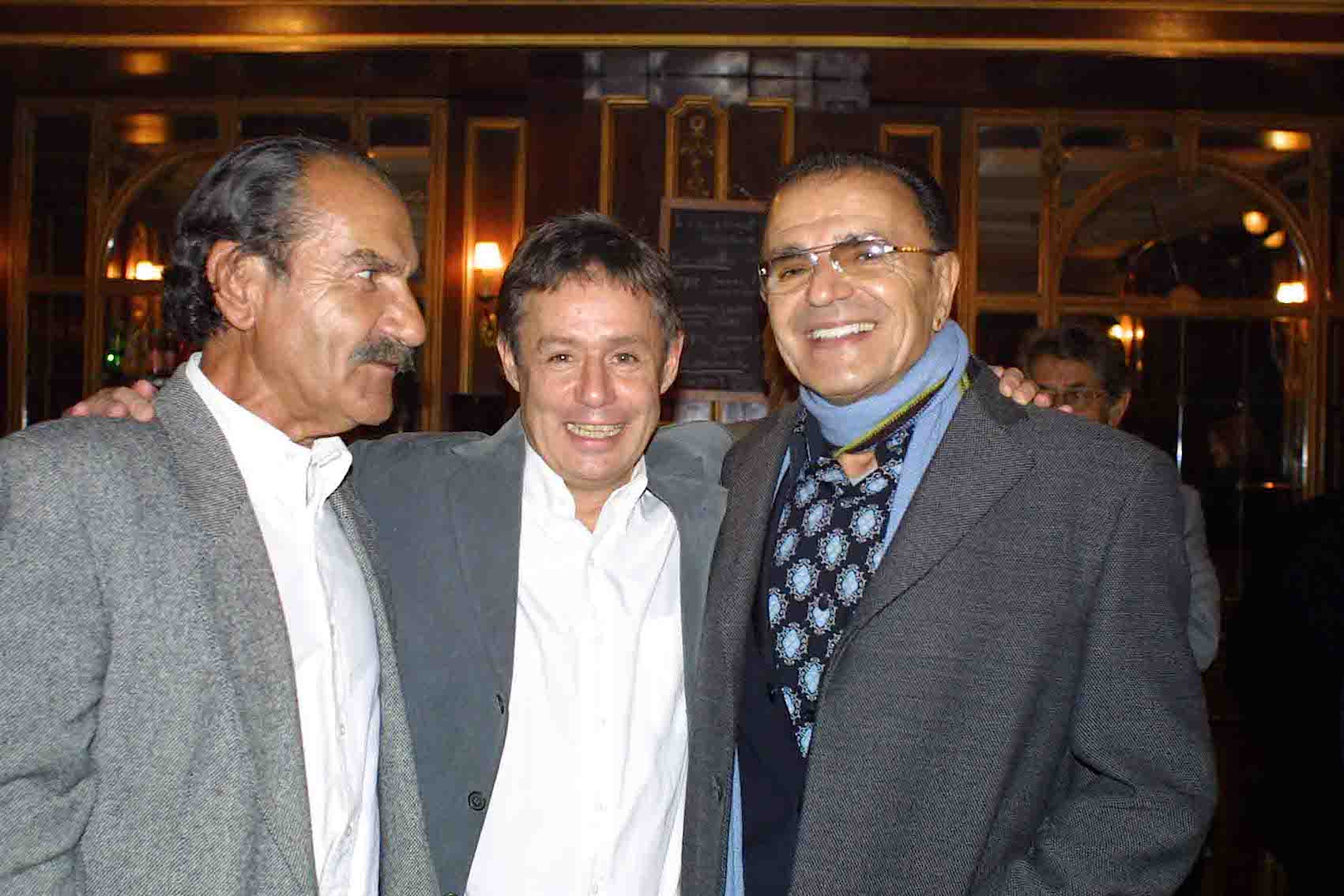 avec Gérard Hernandez et Jean-Pierre Calefon